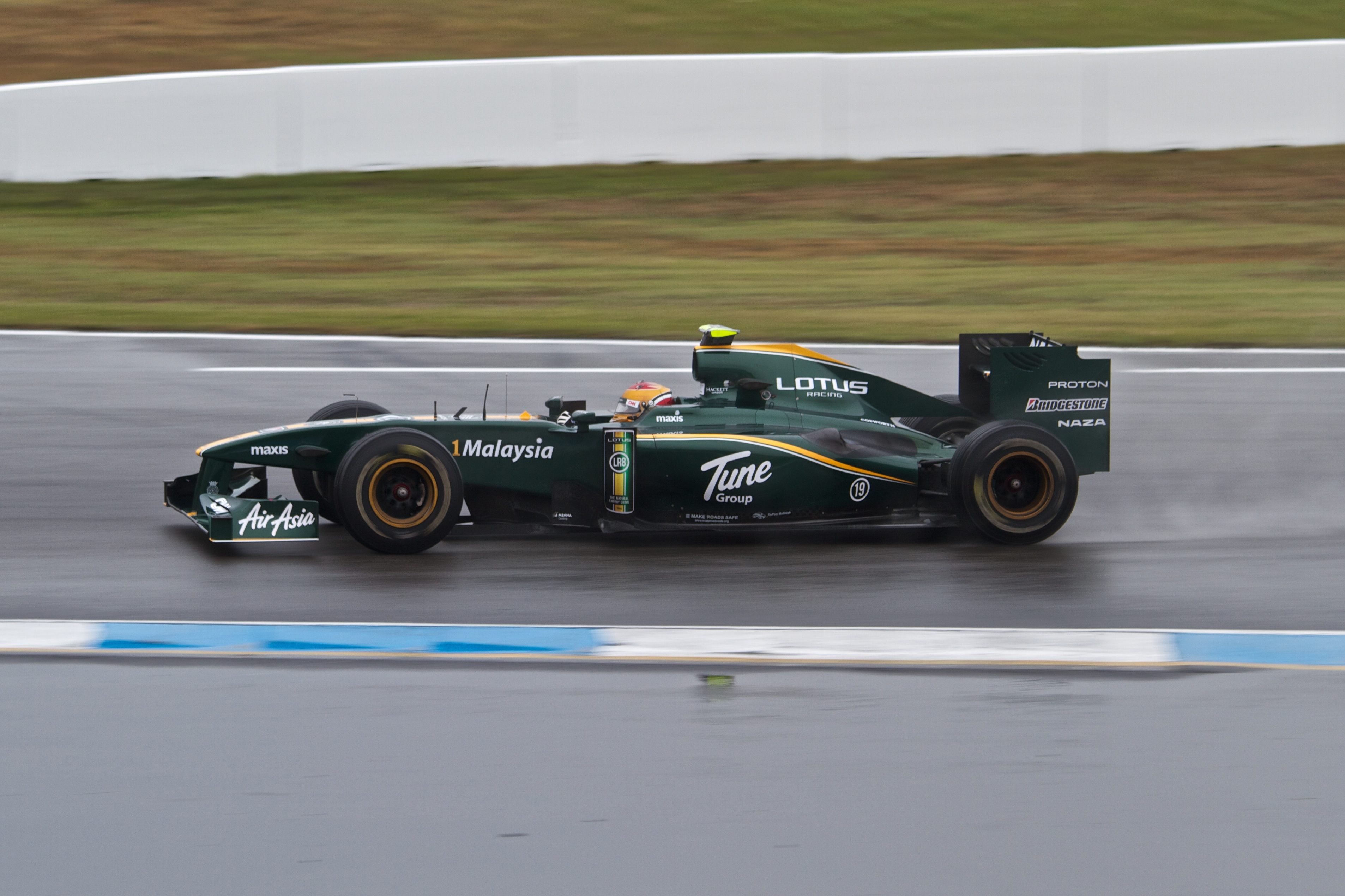 Formula One 2010 Rd.11 German GP: Fairuz Fauzy (Lotus) during Friday 1st Free Practice session as team's test driver.